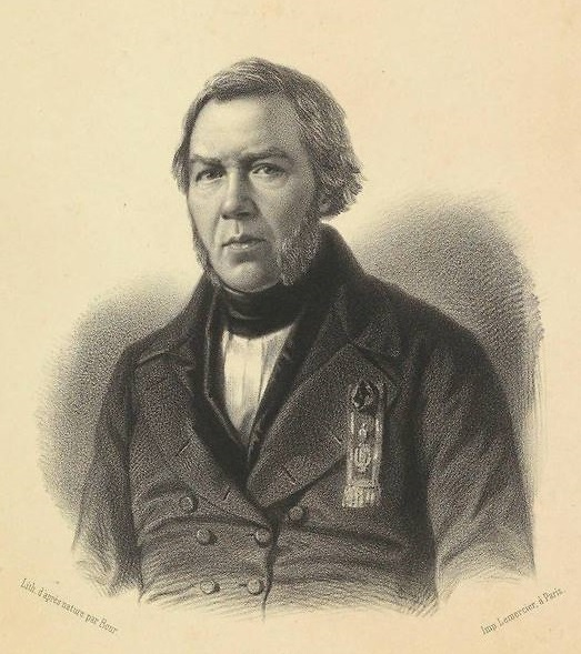 French historian, sociologist and politician Philippe Buchez (1796-1856). Lithograph by Charles Bour (1814-1881).